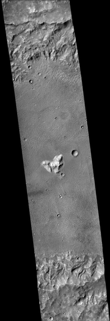 Fournier Crater, as seen by ctx